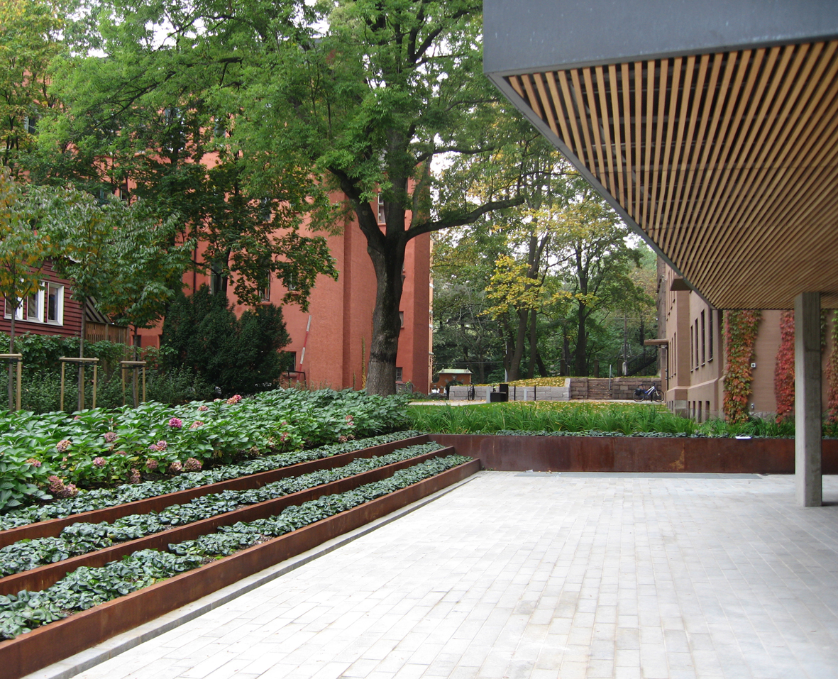 Nasjonalbiblioteket oslo, uterom